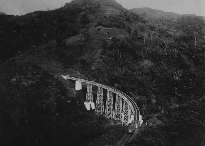 Horseshoe railway bridge in Preanger Java, the photo is taken from above. (Cimeta Bridge, jembatan cimeta)